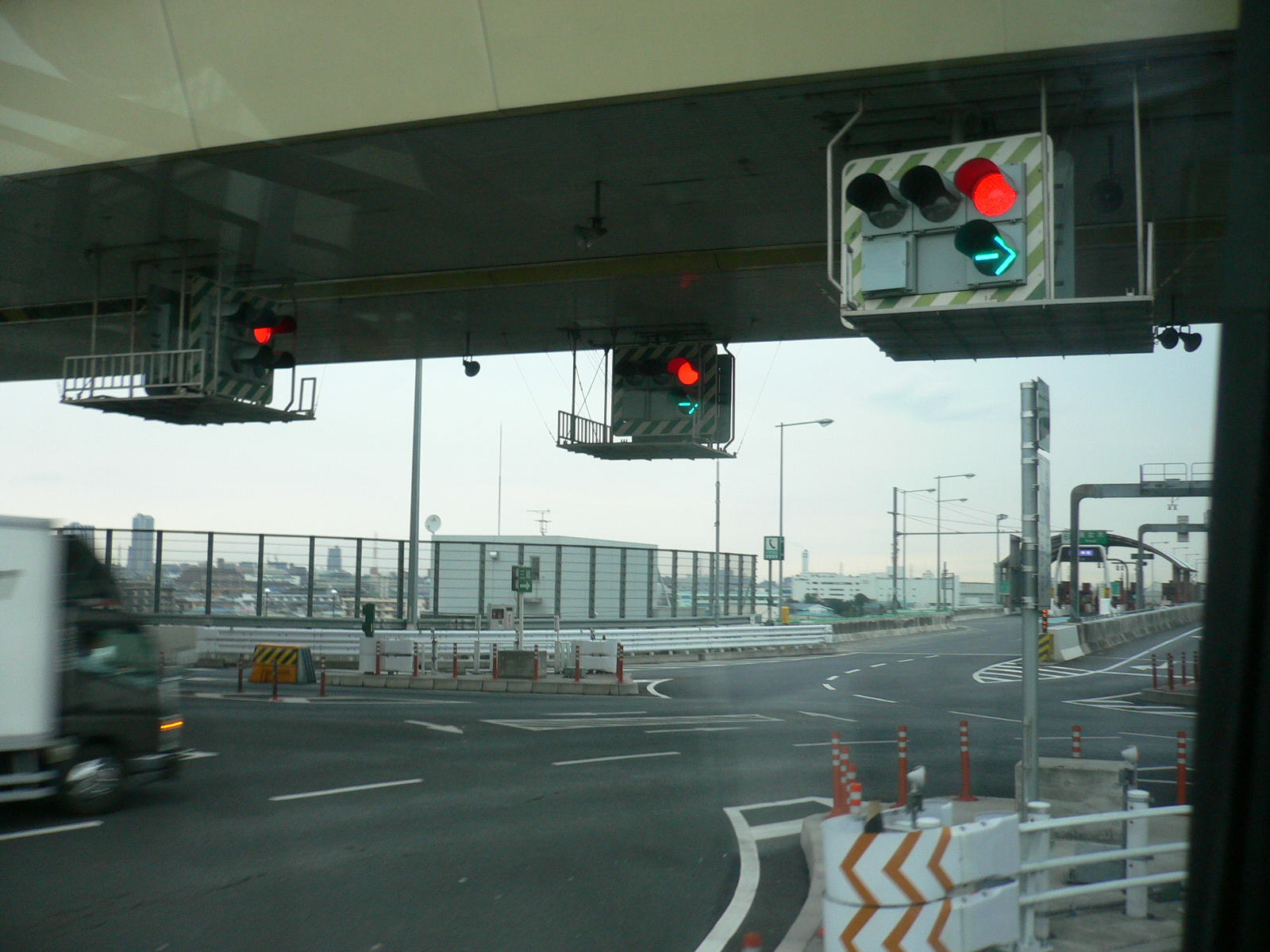 Bijogi Junction crossing